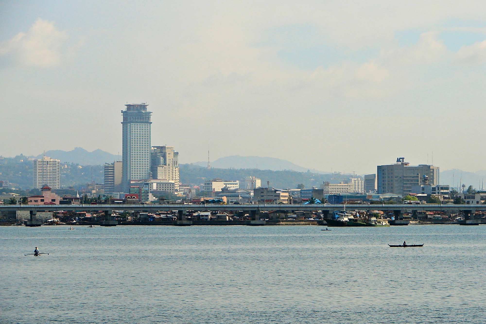 Cebu City skyline, Cebu, Philippines